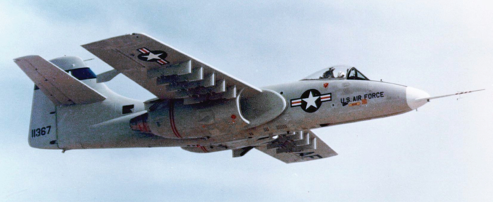 Northrop YA-9 prototype. Public domain USAF photo